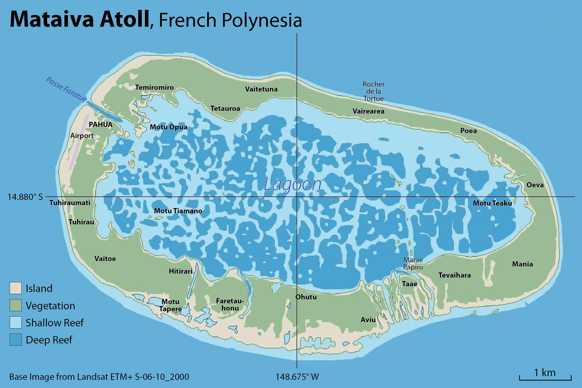 Mataiva Atoll - EVS Precison Map (1:50,000)